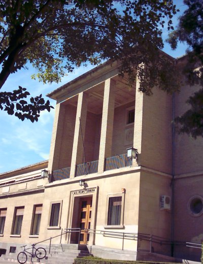 Front door of Pedro Cerbuna hall of residence in Saragossa, Spain